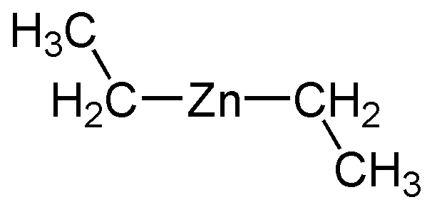 Structure of diethylzinc